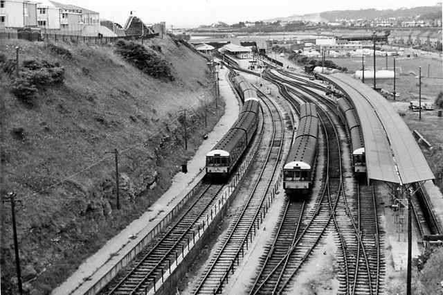 Barry Island Station: Diesel Multiple Unit depot and terminus. View westward, to terminus of line from Barry and Cardiff. The former single line to Barry Pier station via the tunnel, is second from left.